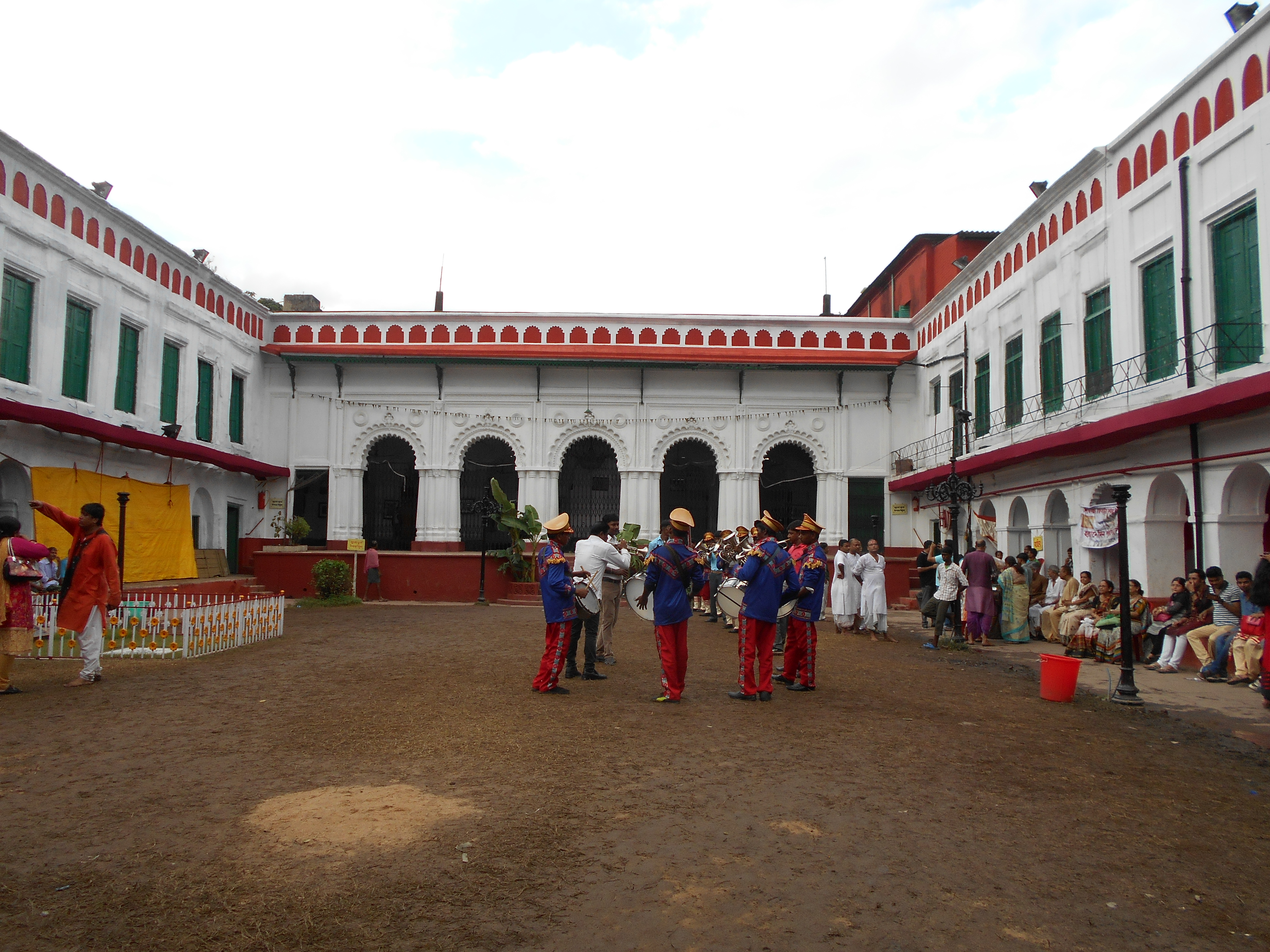 This photo has been taken during Durga Puja in the year 2016 in Kolkata.